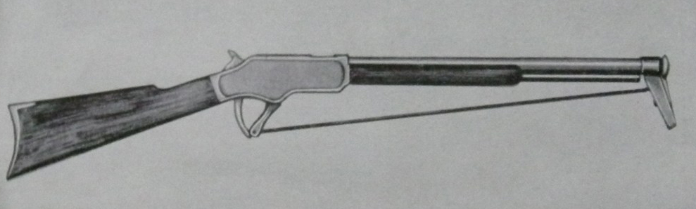 Browning Auto Prototype